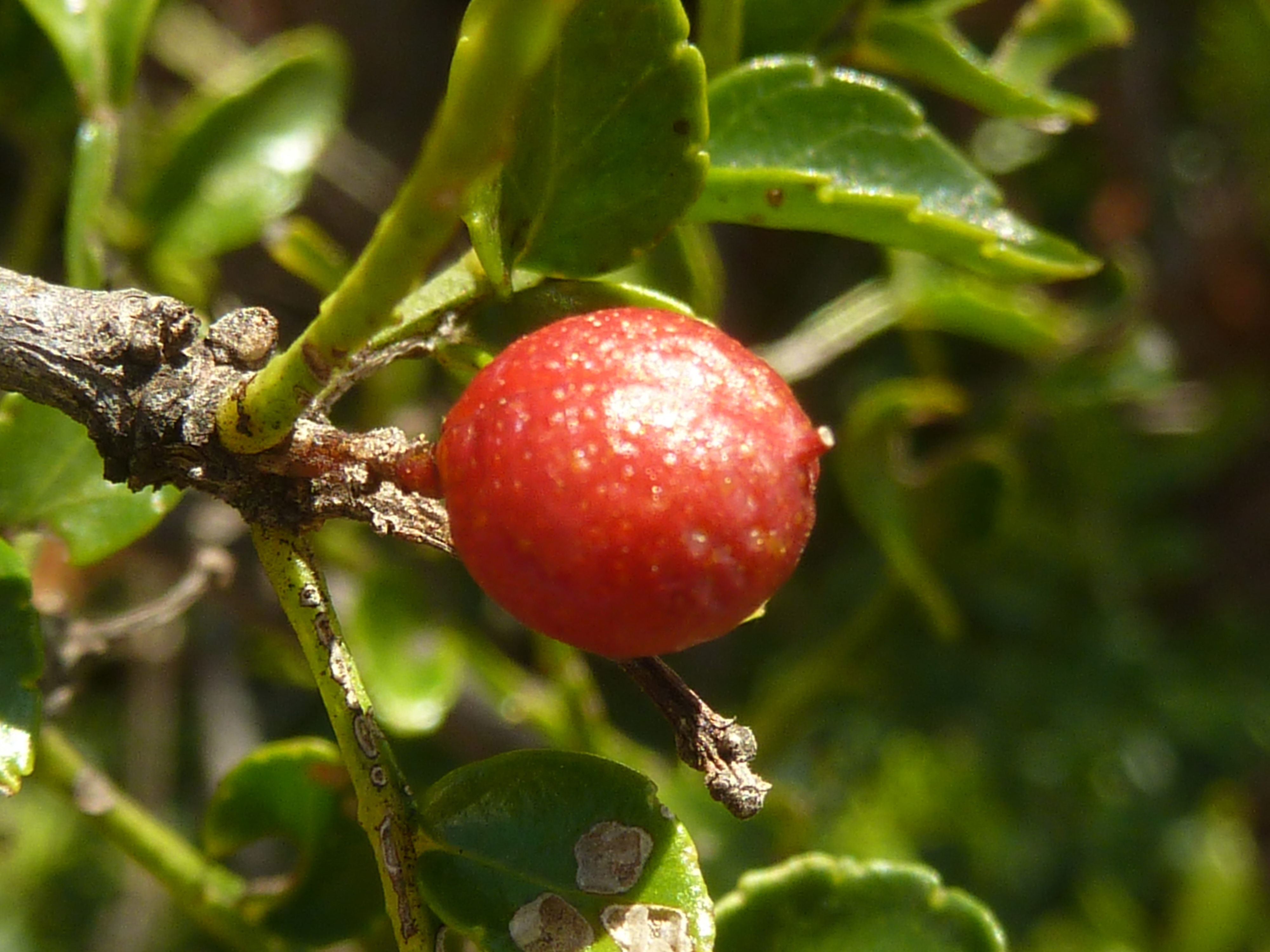 Ripe fruit of a Small knobwood in Groenkloof Nature Reserve